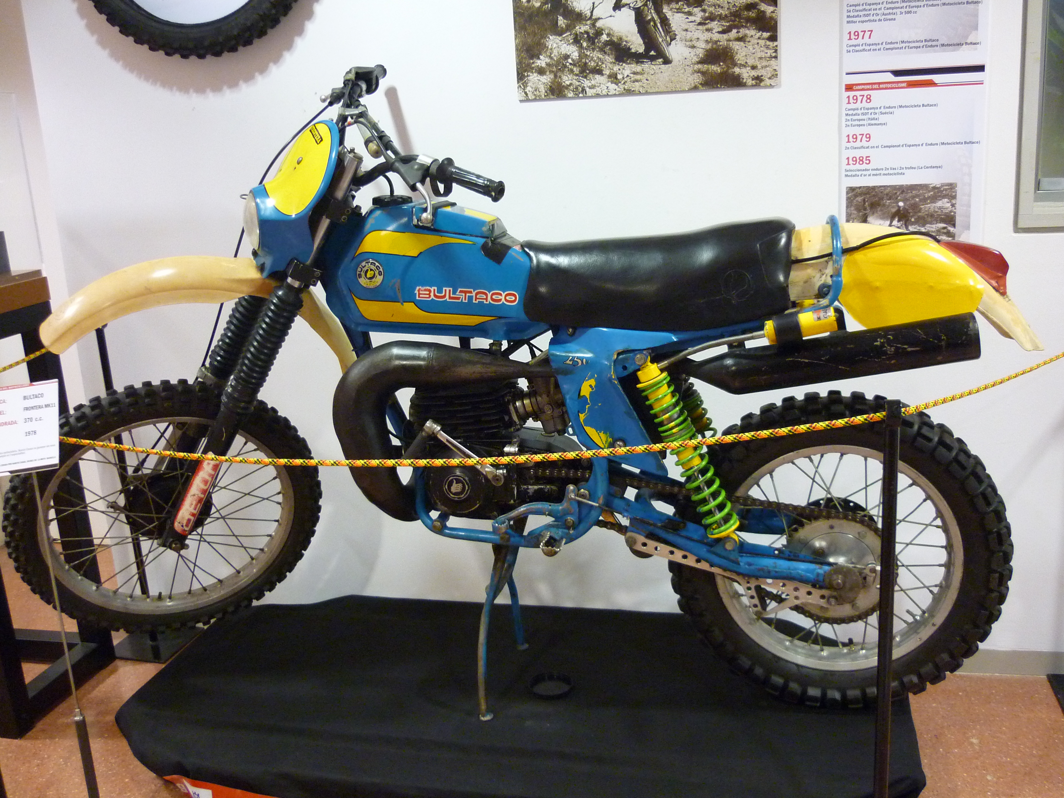 Bultaco Frontera MK11 370 (1978). Bultaco works team motorcycle ridden by Narcís Casas during season 1978. On this bike, Casas won the Spanish Championship and a gold medal at ISDE'78.